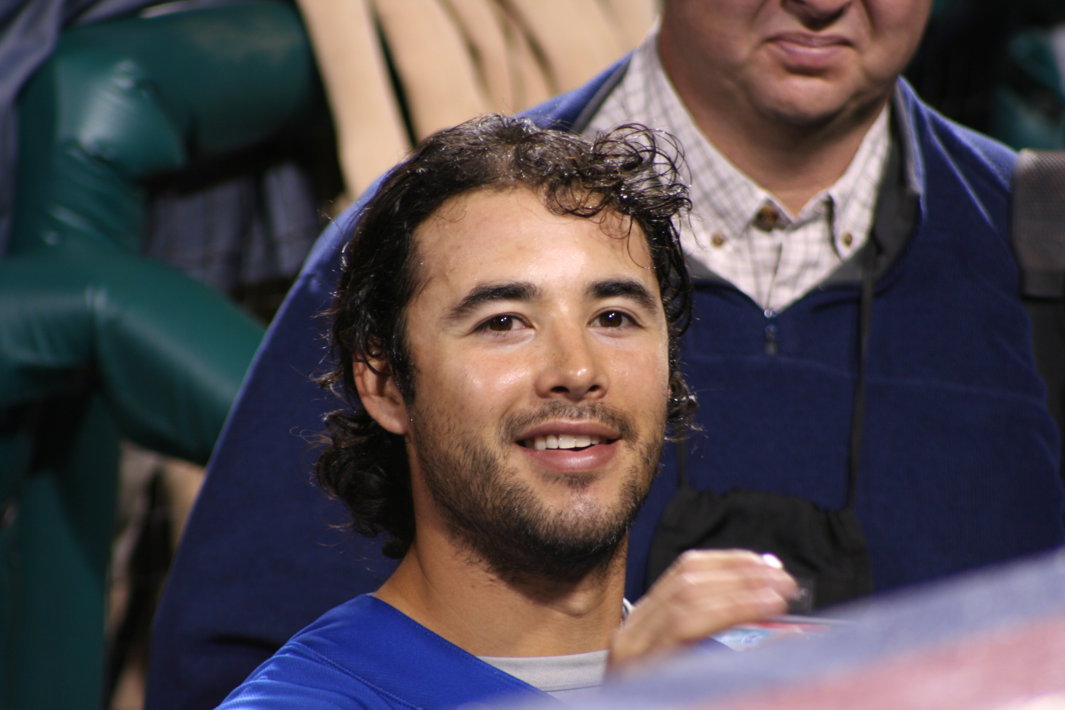 Andre Ethier of the Dodgers